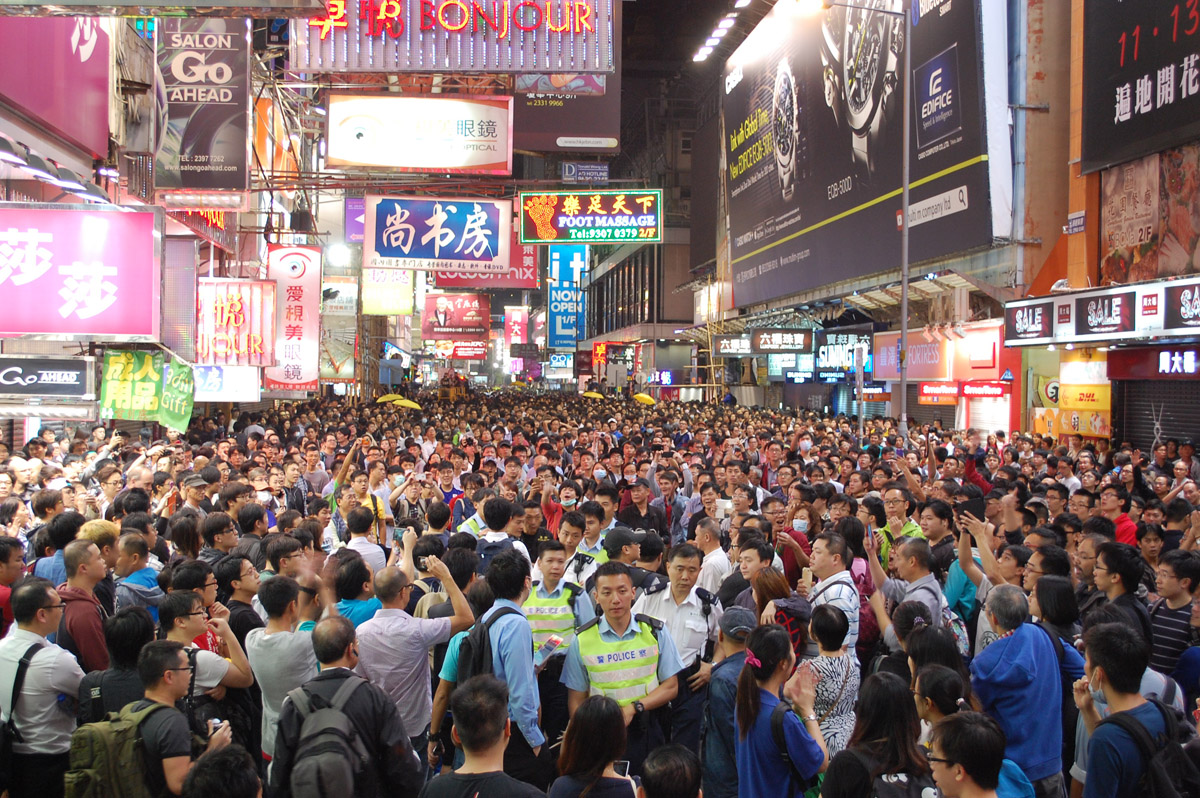 Umbrella Movement protests, Mong Kok, Hong Kong the evening of 26 November 2014. Some police officers retreat from Sai Yeung Choi Street.